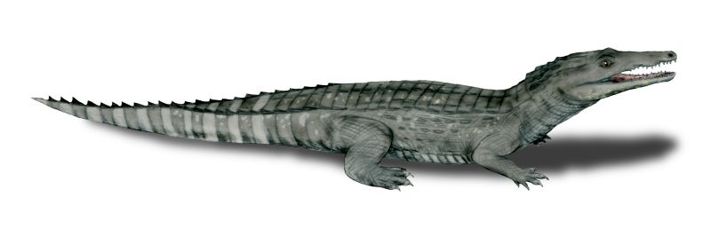 Bernissartia fagesii from the Early cretaceous of Southern England and Belgium, digital